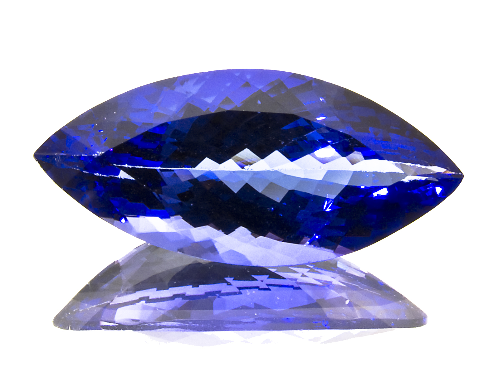 Tanzanite marquise (navette) cut